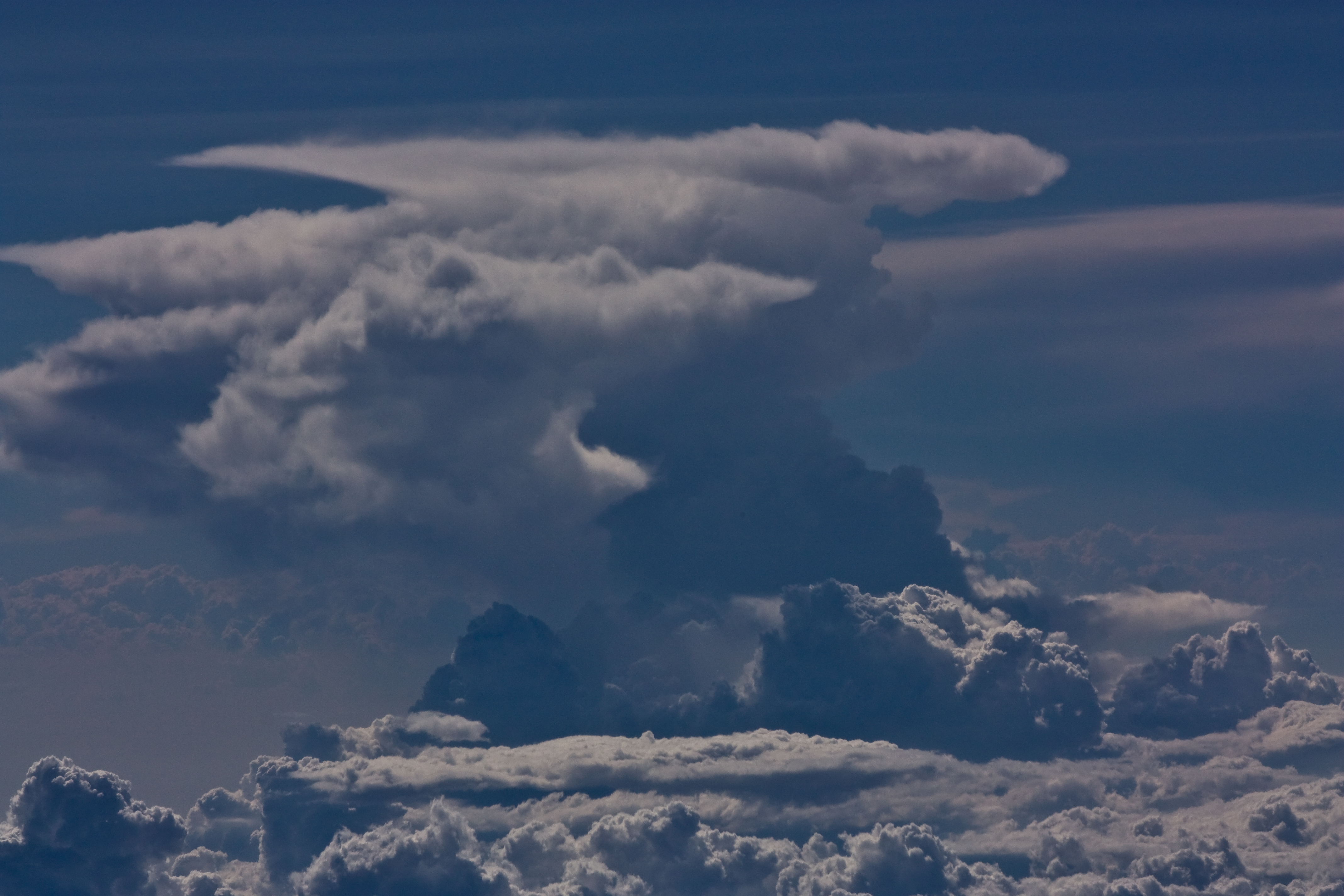 Anvil of a thundercloud over Columbia.